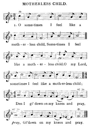 1899 sheet music of traditional song Sometimes I Feel Like a Motherless Child